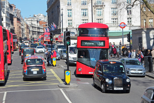 New Bus for London on Piccadilly